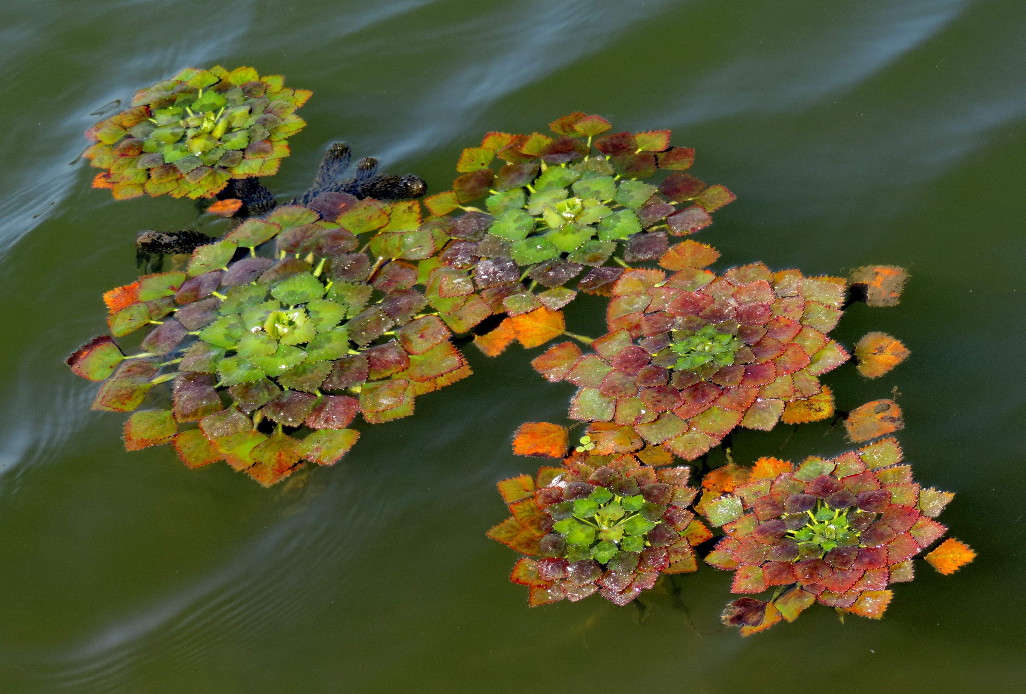 Trapa natans. Odra river near Czerwieńsk, W Poland